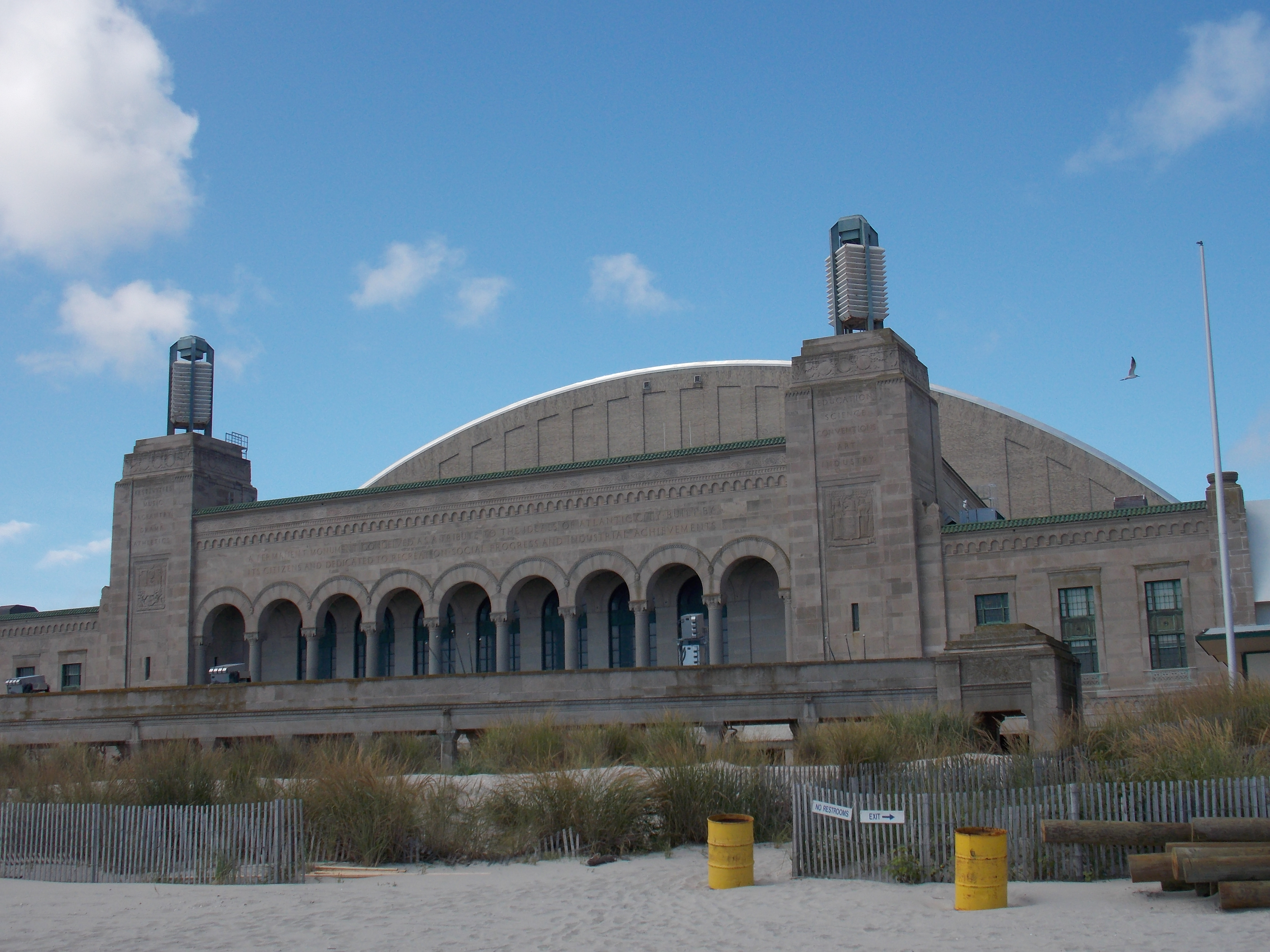 Boardwalk Hall in Atlantic City, New Jersey.